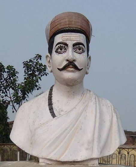 Statue of Maha Kavi Kokil Vidyapati. Captured at Bisfi The Birth Place of Maha Kavi